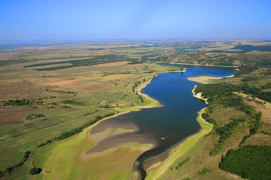 Dam "Ezerovo"